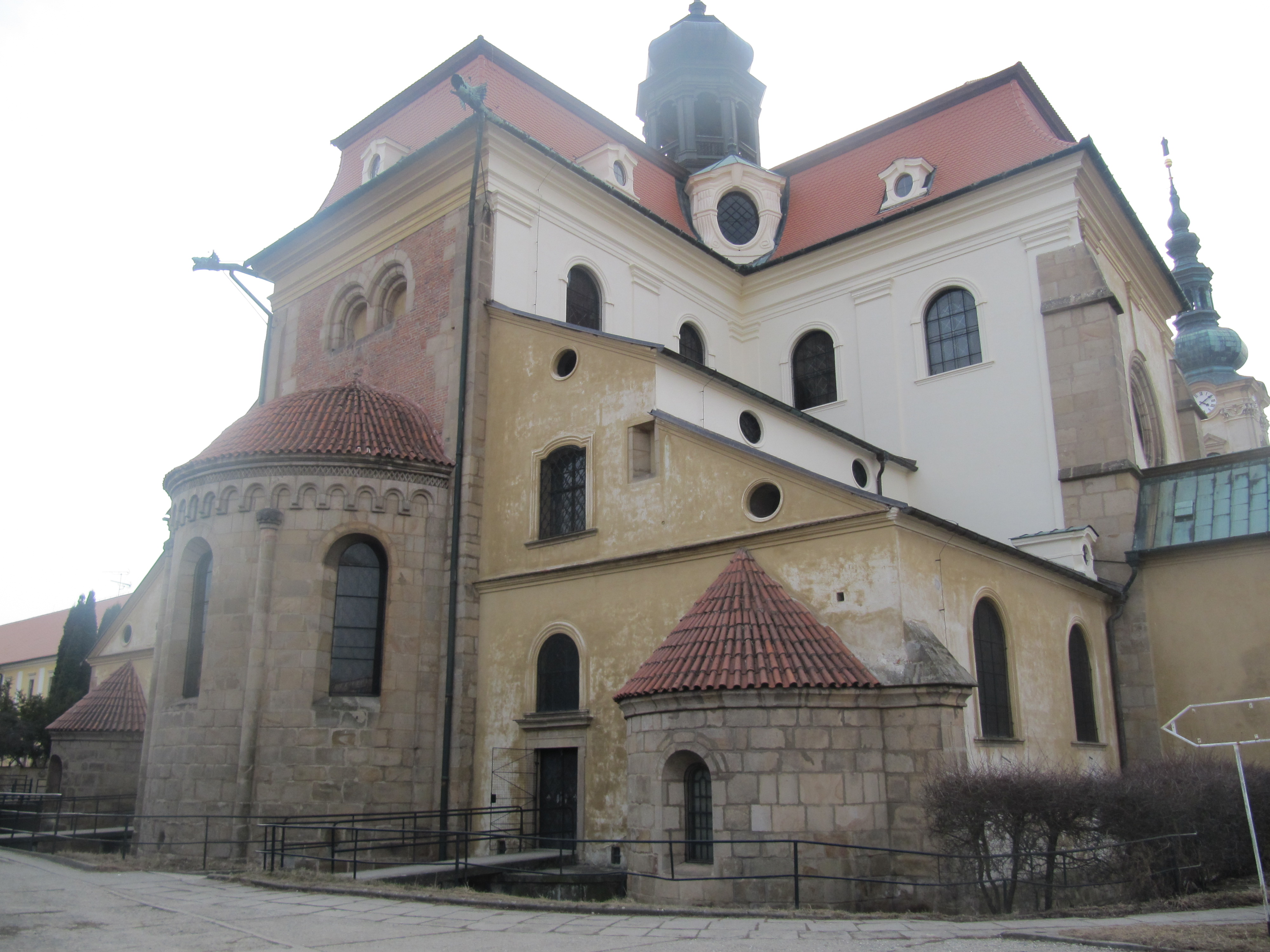 Velehrad in Uherské Hradiště District, Czech Republic. The Basilica of Assumption of Mary and St. Cyrillus and Methodius, backside with Romanesque apsis.